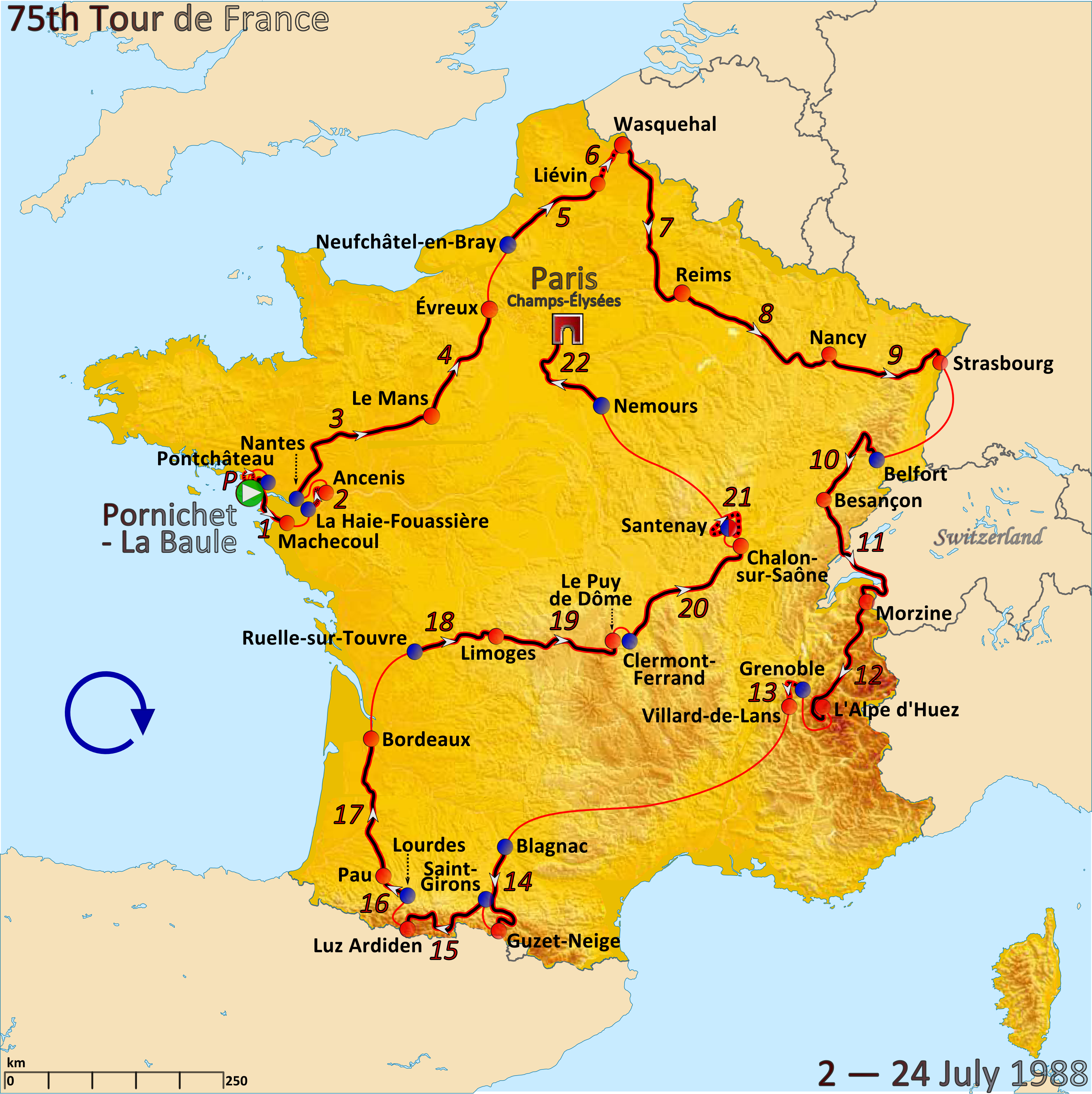 Map of the 1988 Tour de France created in Inkscape